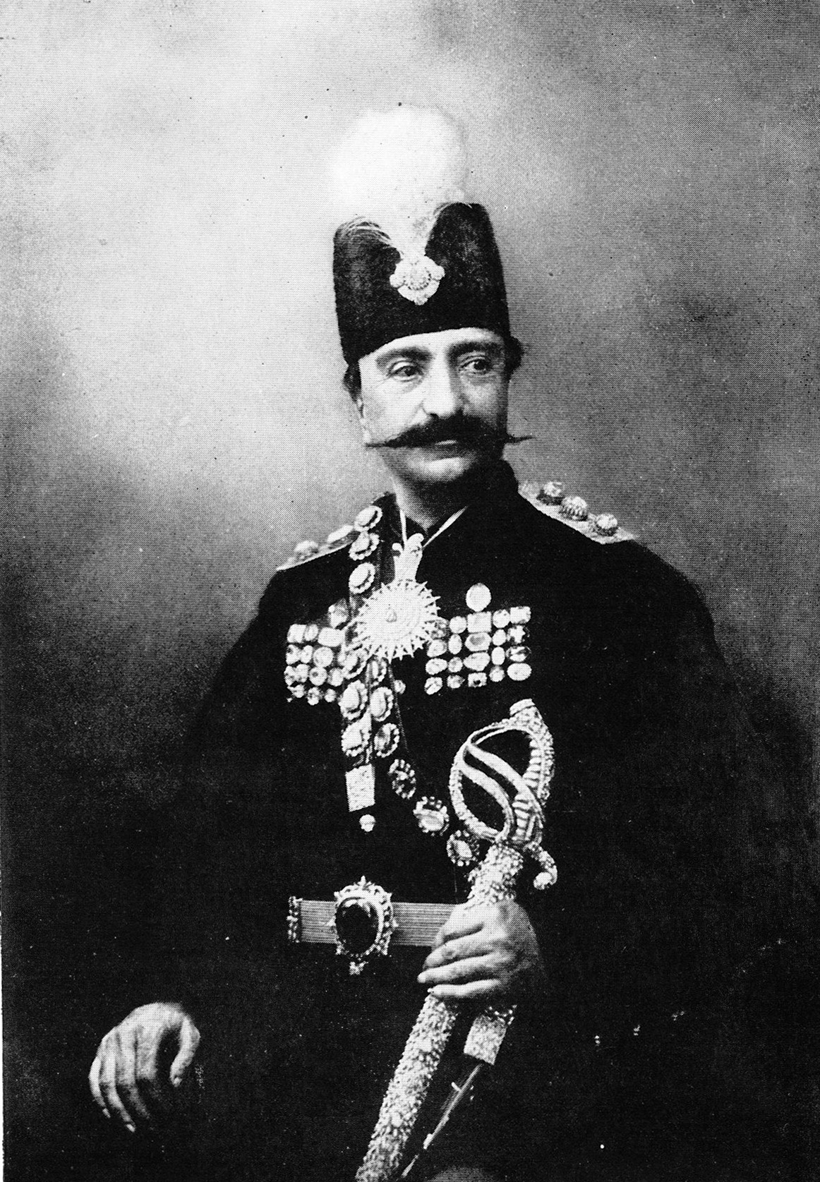 Nāser al-Dīn Shah, 1870